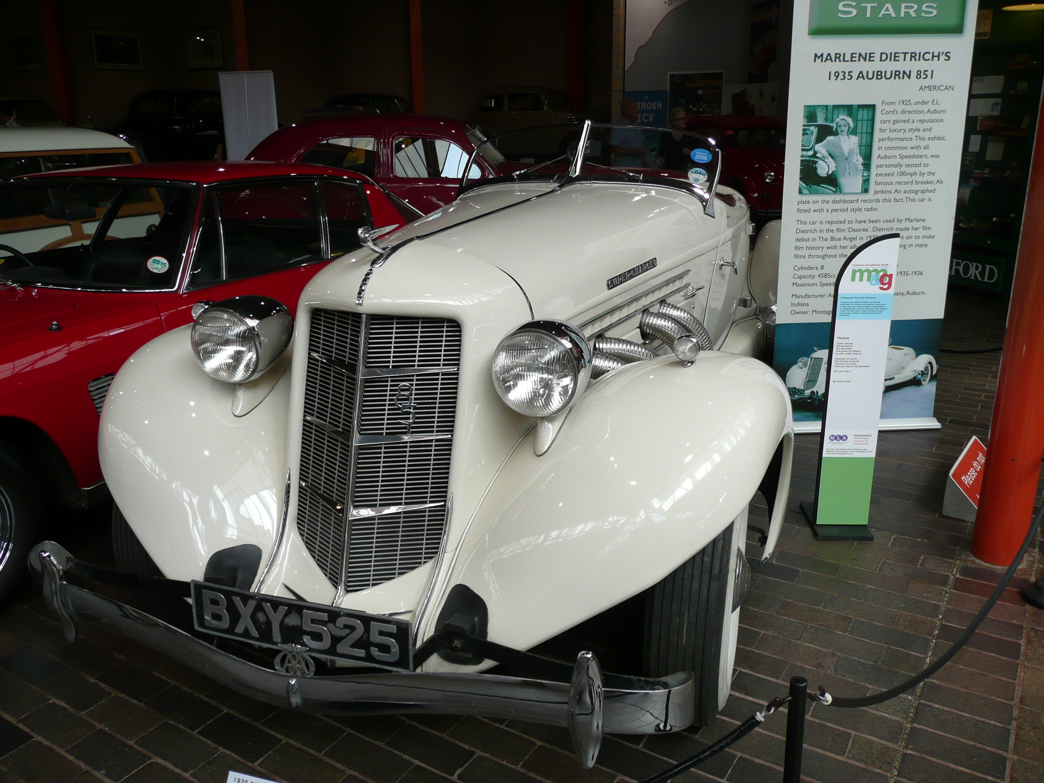 1935 Auburn 851, National Motor Museum in Beaulieu.